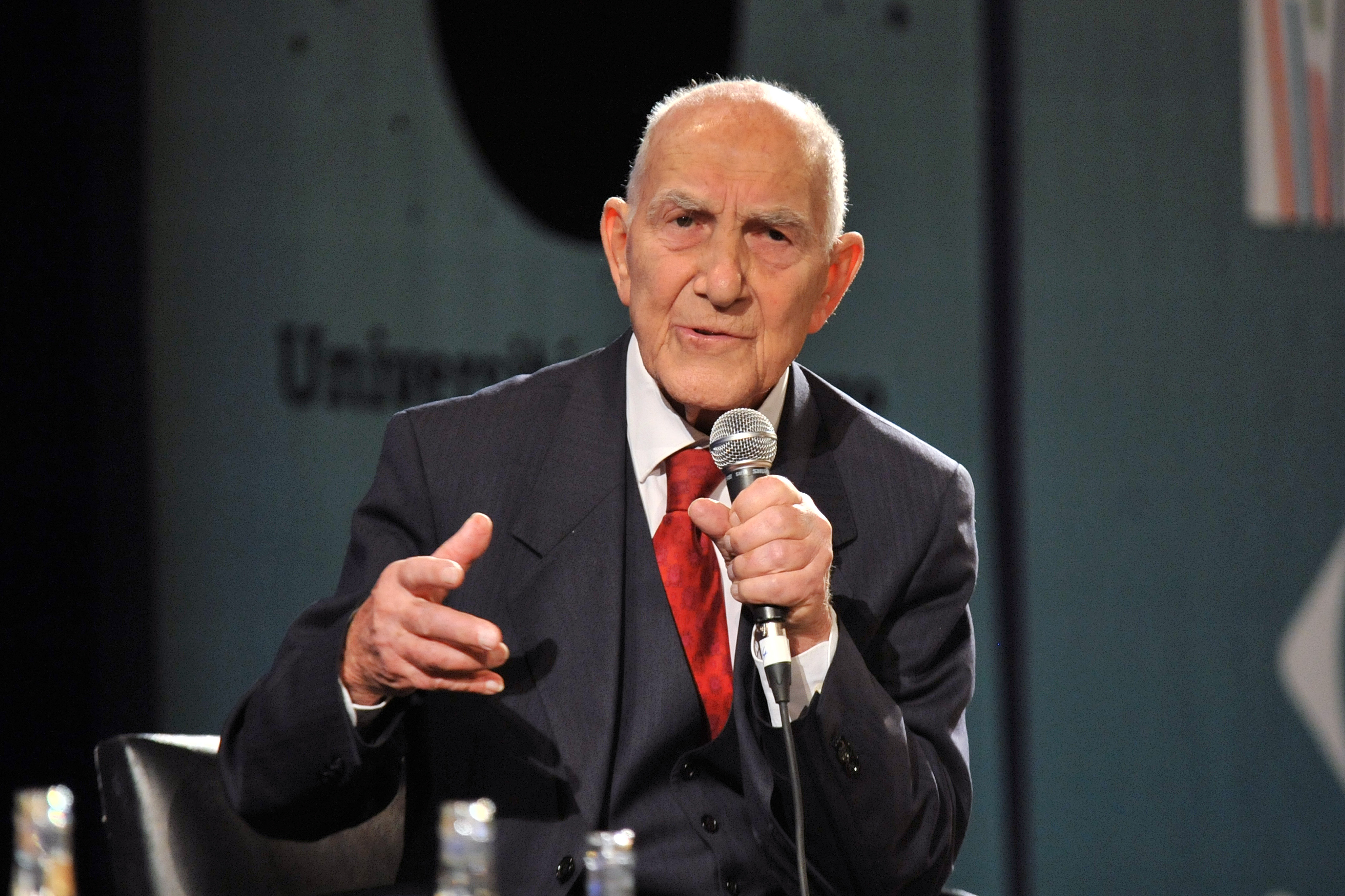 Portrait of the writer and diplomate, Stéphane Hessel, during the 4th Forum of Earth University (created by the Fundation Nature et Découvertes ) "Building a new society"